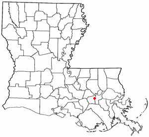 Map showing location of Lutcher, Louisiana.